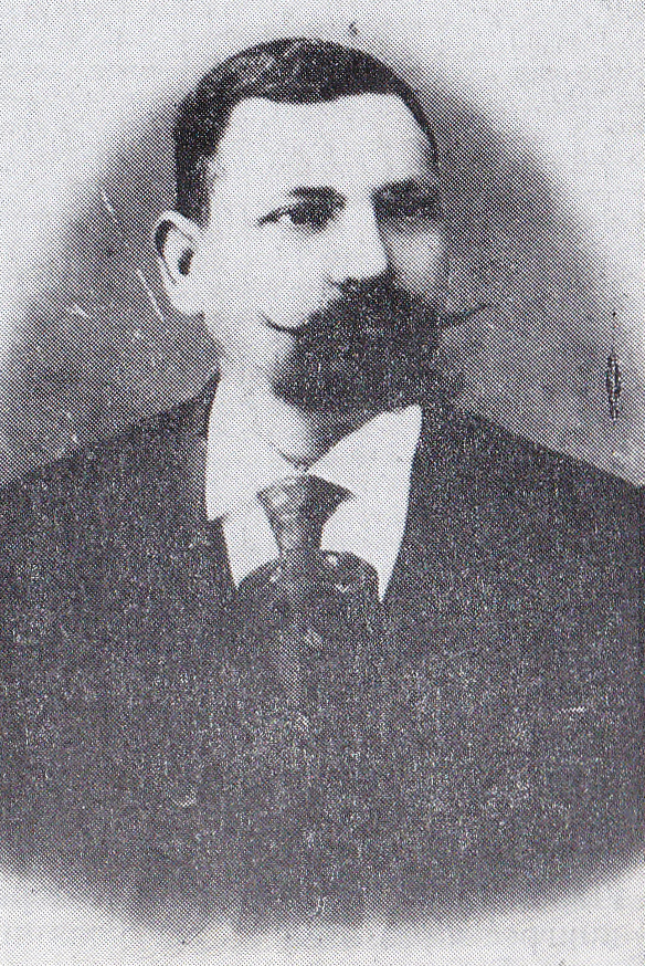 portrait of Georgi Kondolov